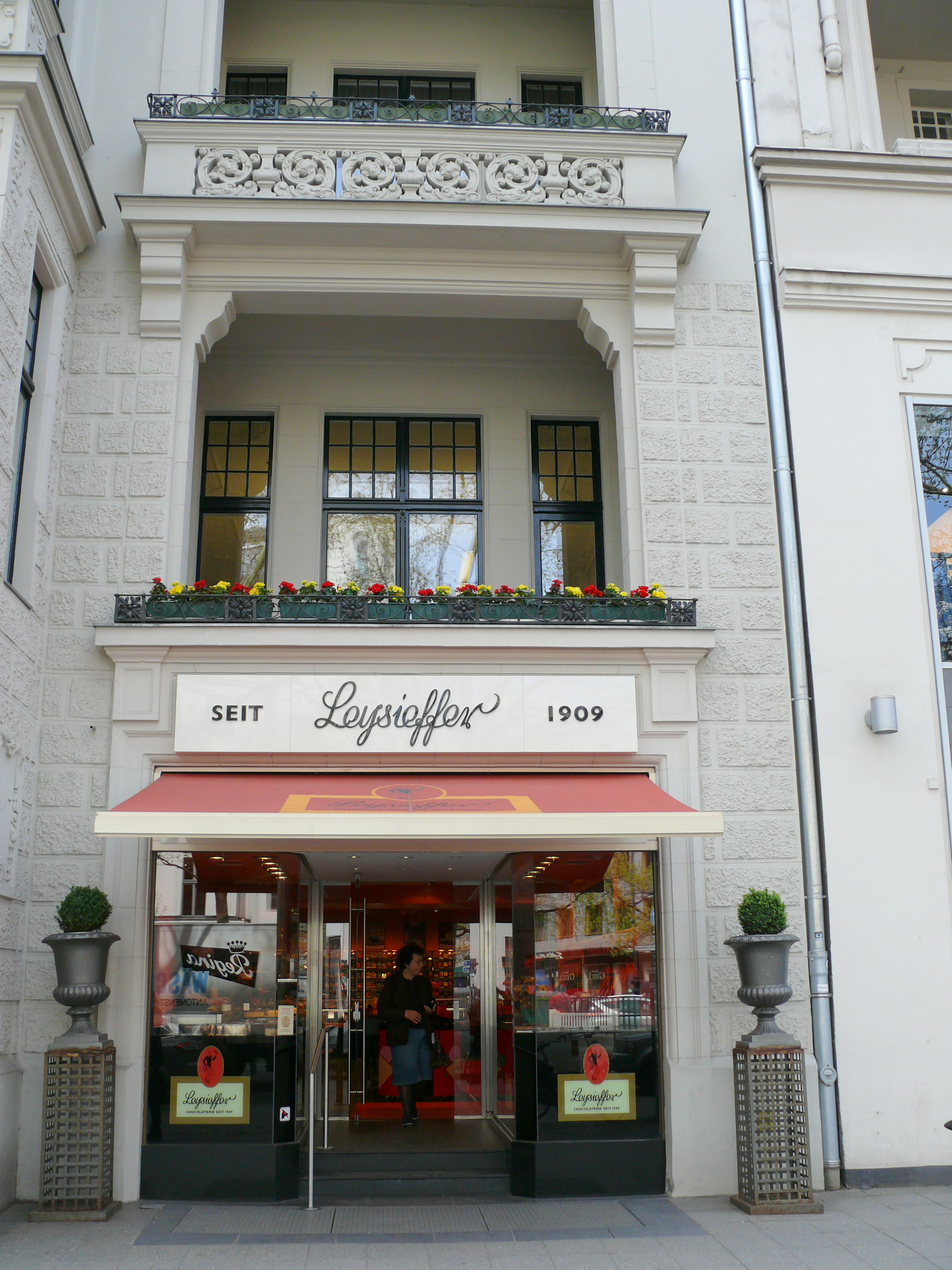 Berlin-Charlottenburg Kurfürstendamm 218 Leysieffer